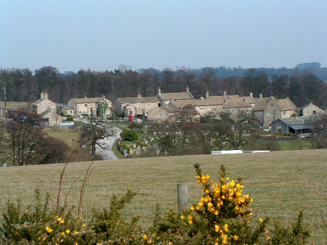 Emmerdale Village. Built specially by Yorkshire Television for filming of the soap, near Eccup, Leeds, West Yorkshire, England.